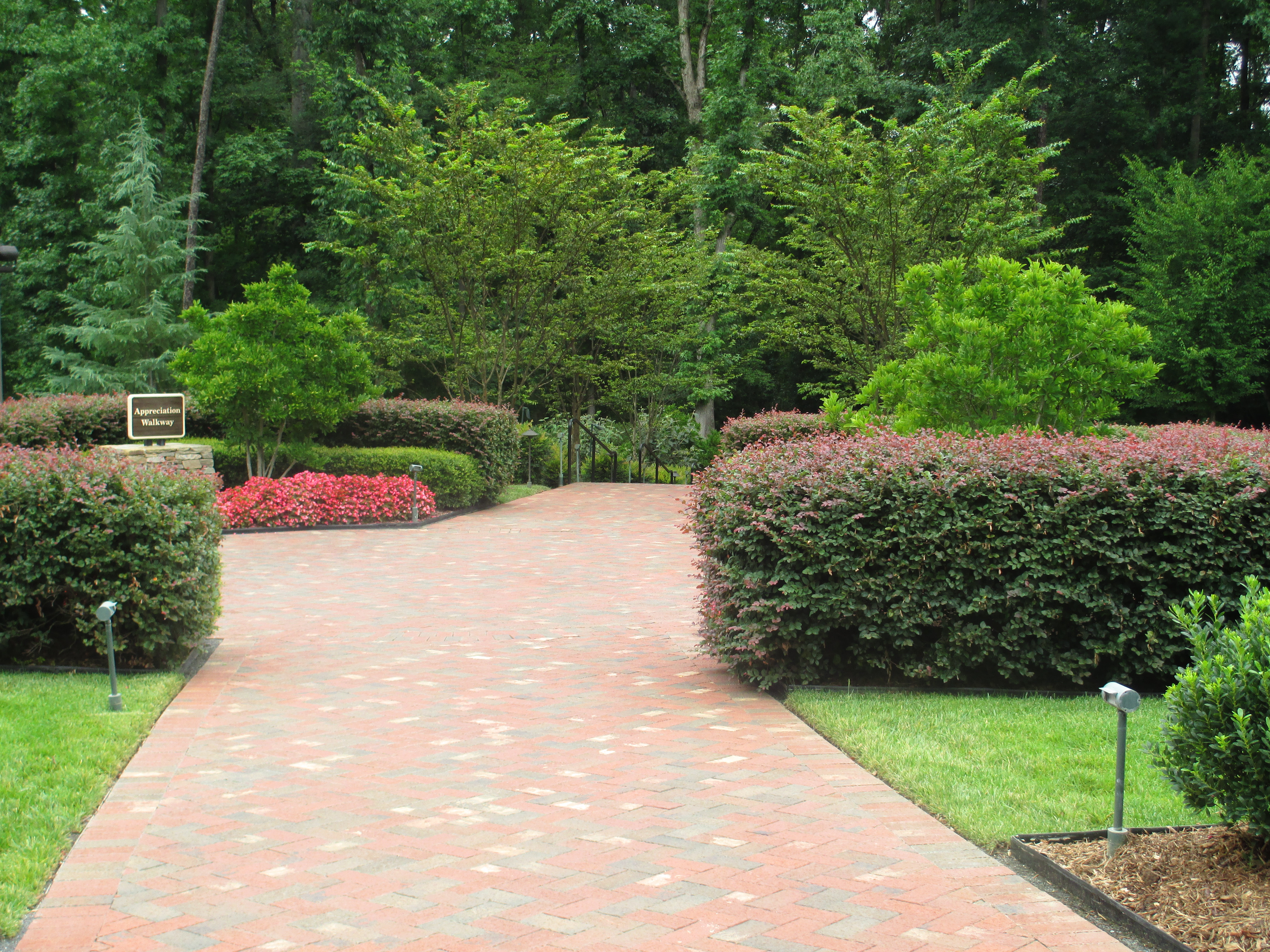 I took photo of Appreciation Walkway at Billy Graham Library in Charlotte, NC, using Canon camera.